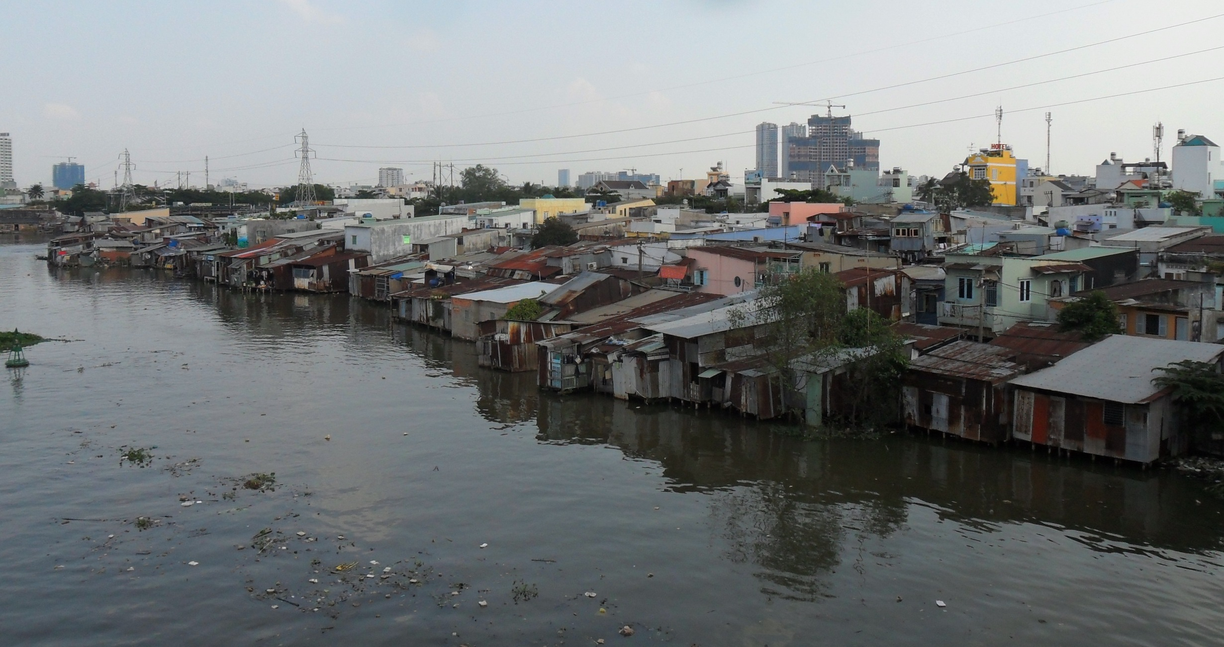 Ho Chi Minh City with slums, Vietnam